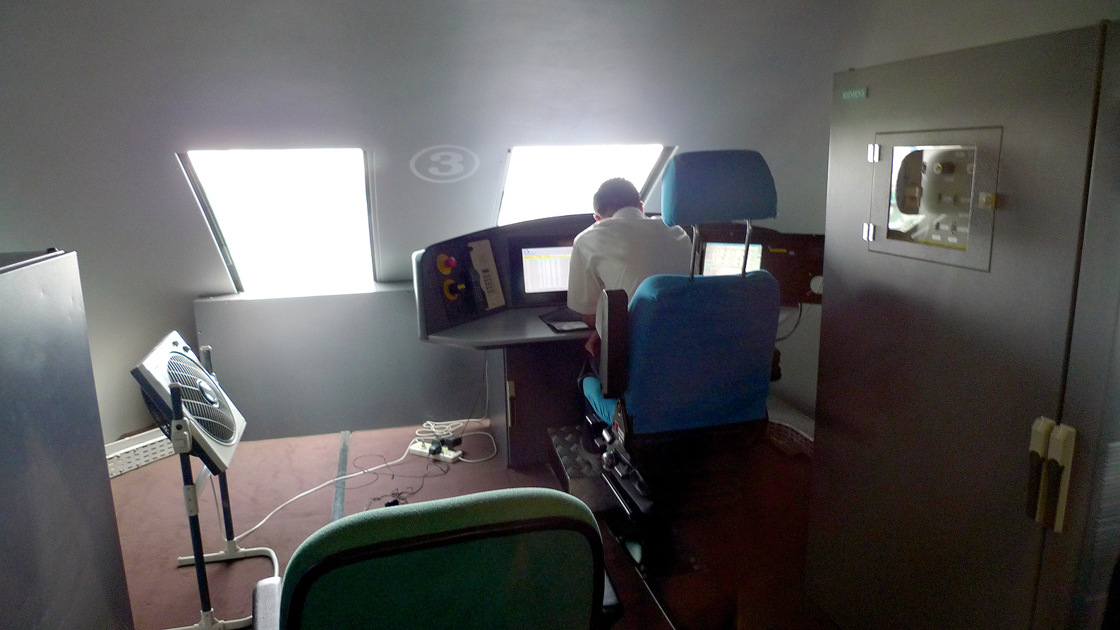 View of front operating room of Shanghai Maglev train